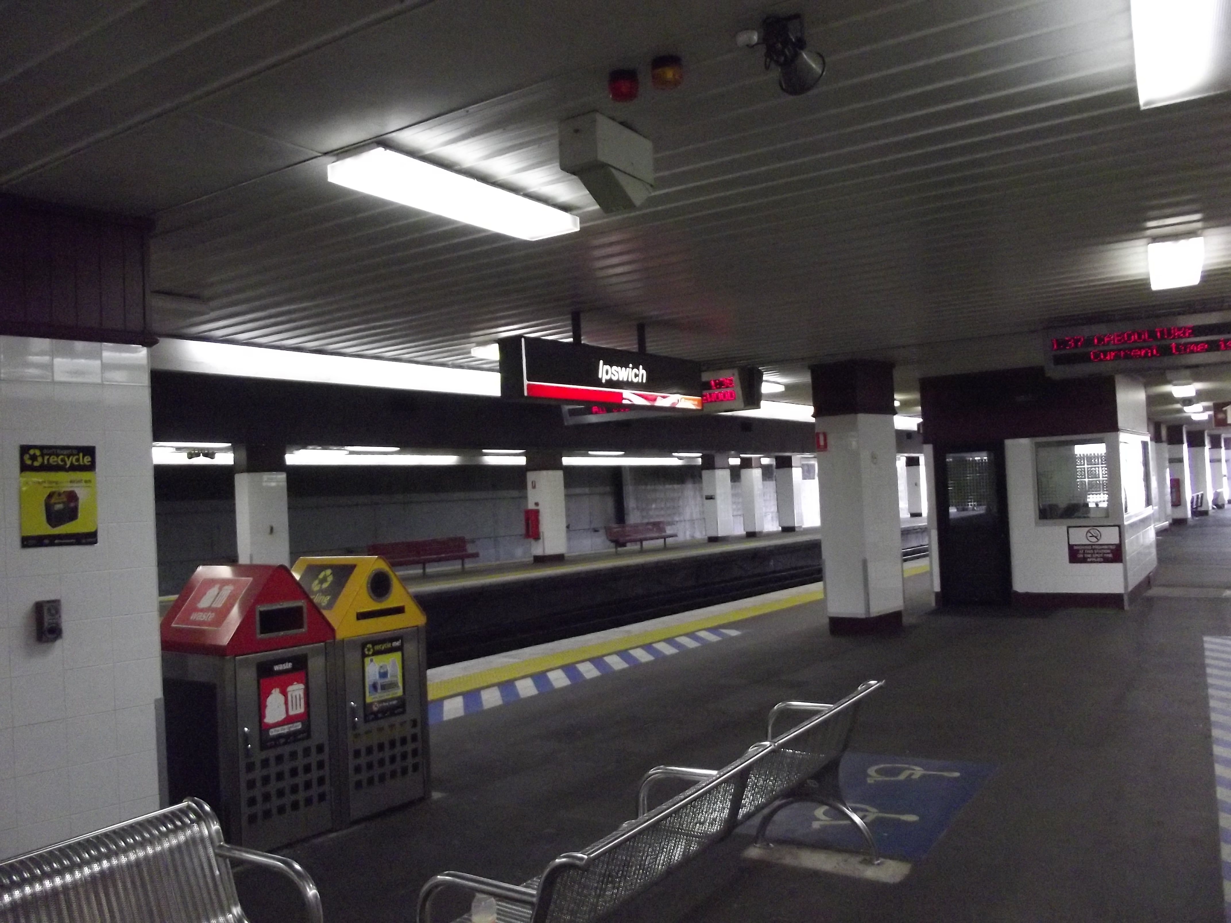 A photo of the Ipswich railway station operated by TransLink, located in Ipswich, Queensland.